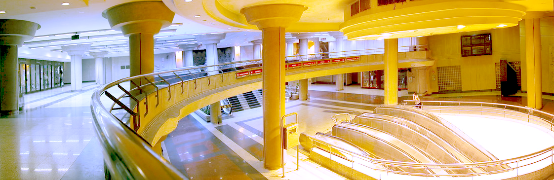 Upper Gallery at railway station vukov spomenik in the belgrade junction network